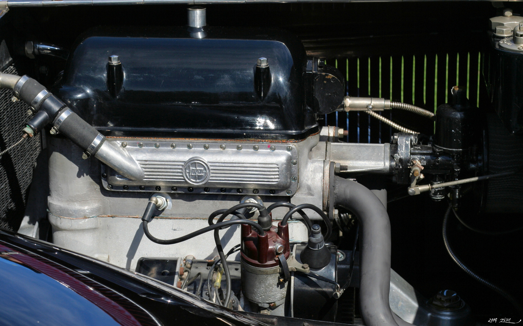 1927 Lancia Lambda Airway Saloon, produced by the English body maker Albany on a standard short wheelbase "Lambda" 7th series type 219. It was ordered for the Olympia Motor Show in London in honor of the trans-Atlantic crossing of Charles Lindbergh. The Lancia engine is a type 78 with 4-cylinder V with a displacement of 2,375 cm3. The instrument panel is equipped with a wind gauge and altimeter.